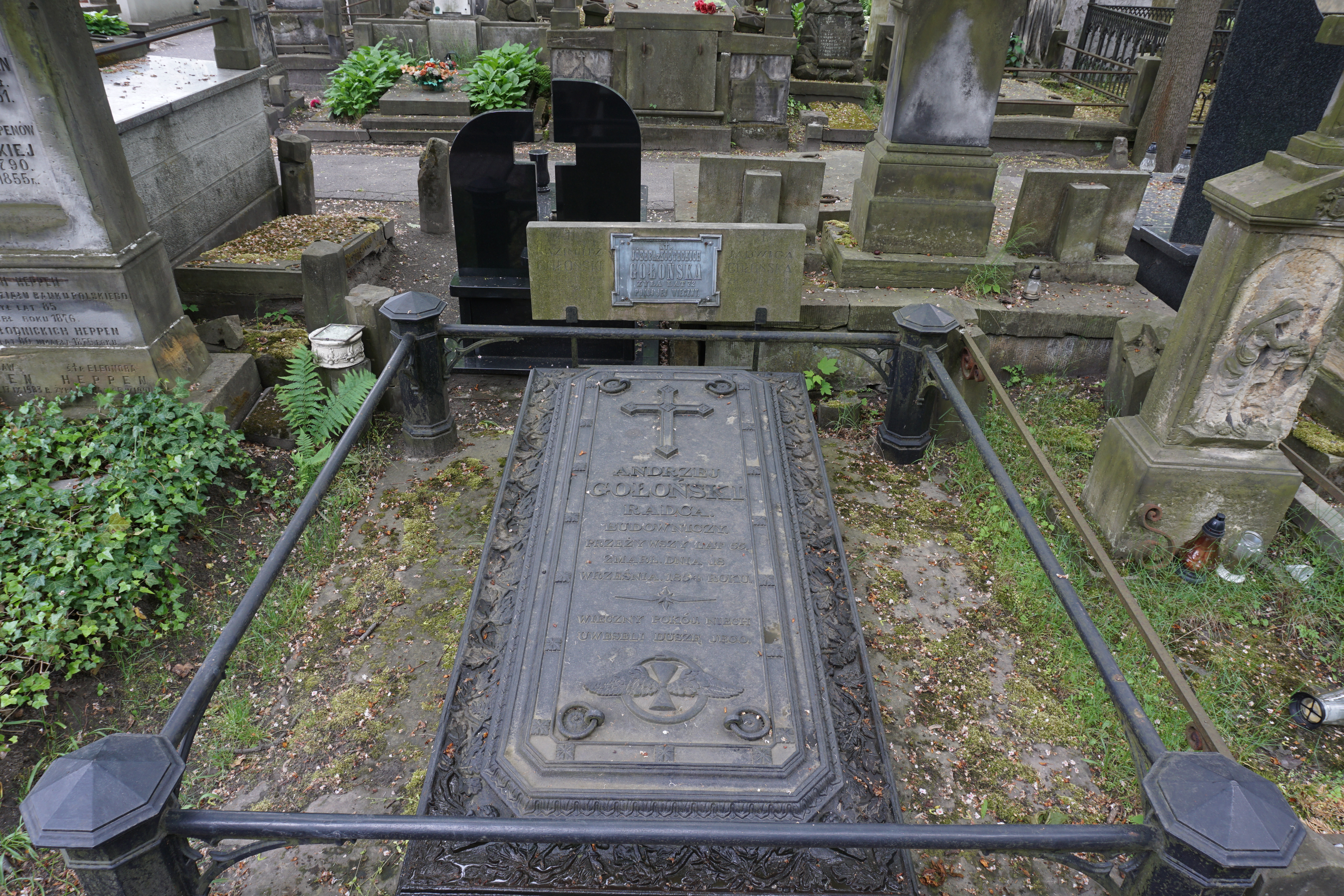 The grave of Andrzej Gołoński at the Powązki Cemetery (section 17, row 2, grave 5, 6)